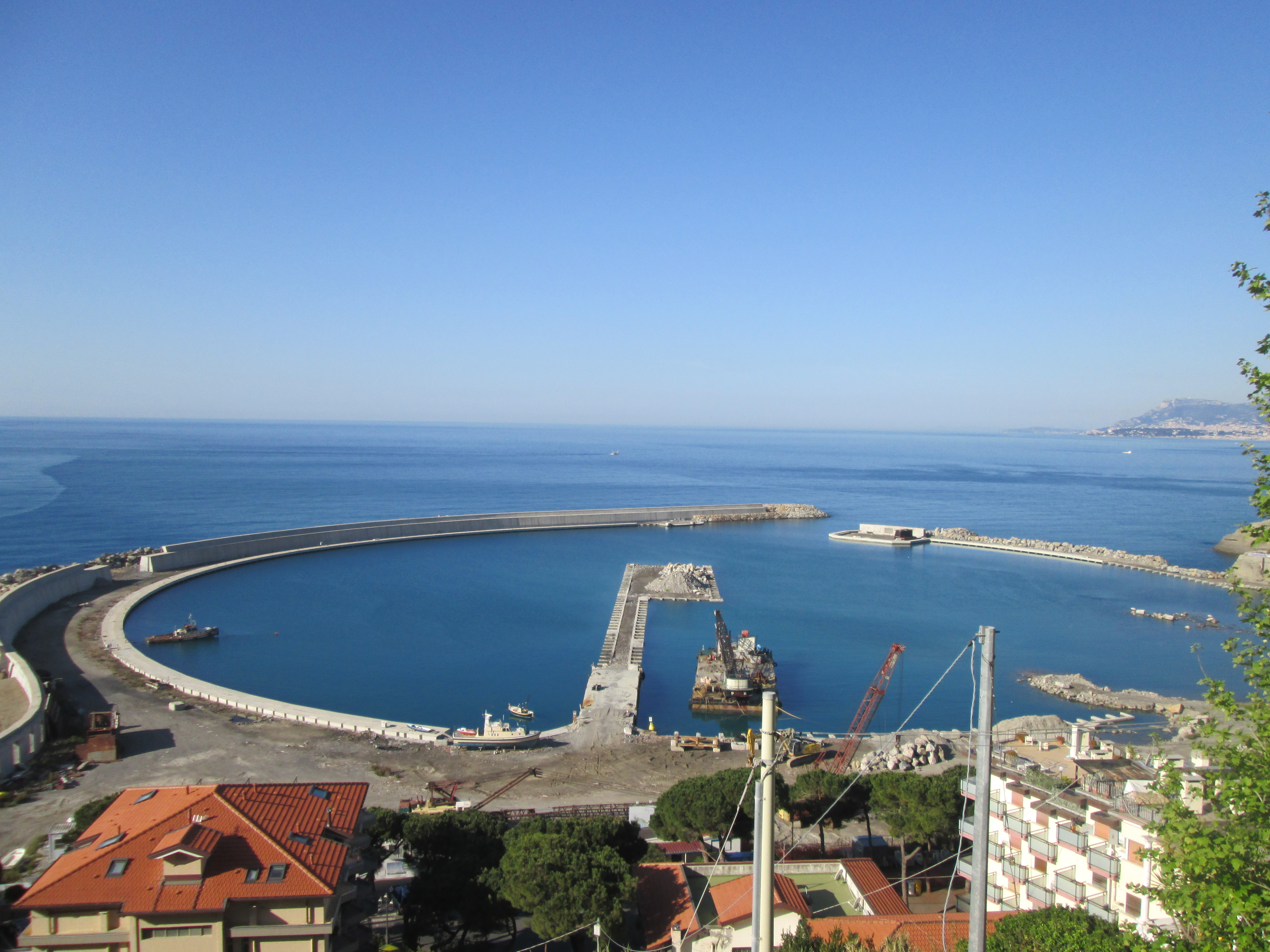 Porto degli Scoglietti of Ventimiglia, Italy, under construction in 2016 (view from Porta Nizza)